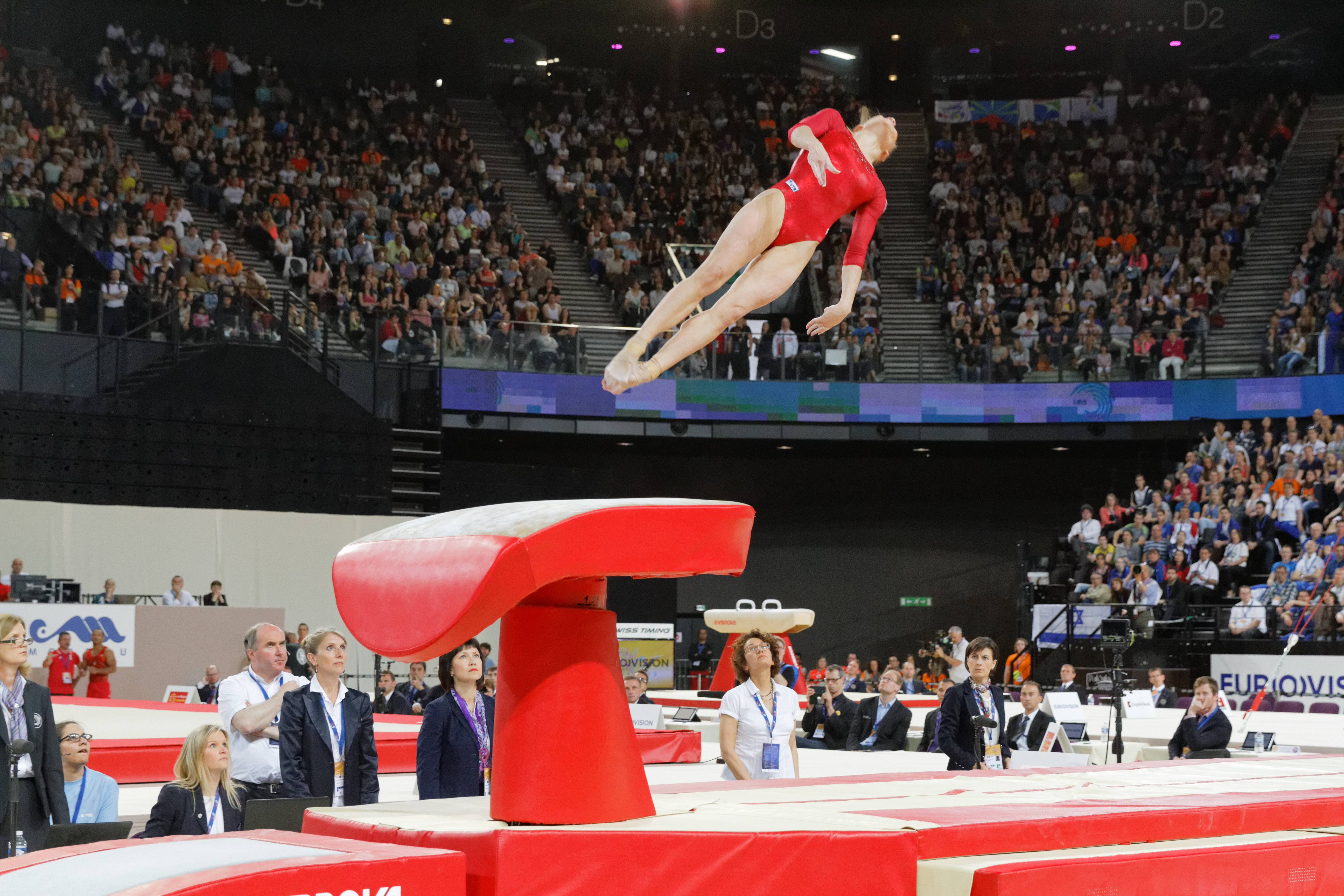 2015 European Artistic Gymnastics Championships. Vault.